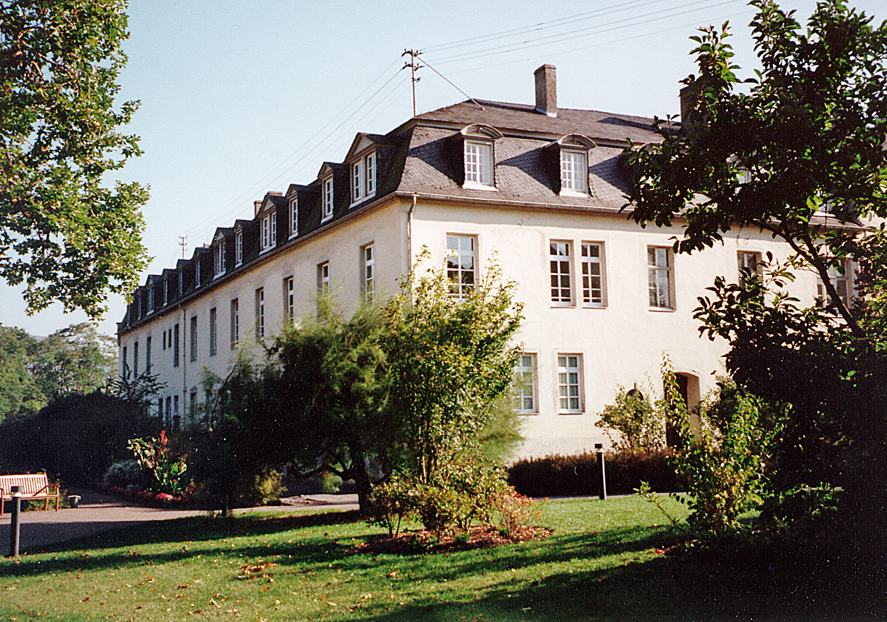 EKiR Archiv Archivstelle Boppard, Farbabzug Foto: Dr. Stefan Flesch